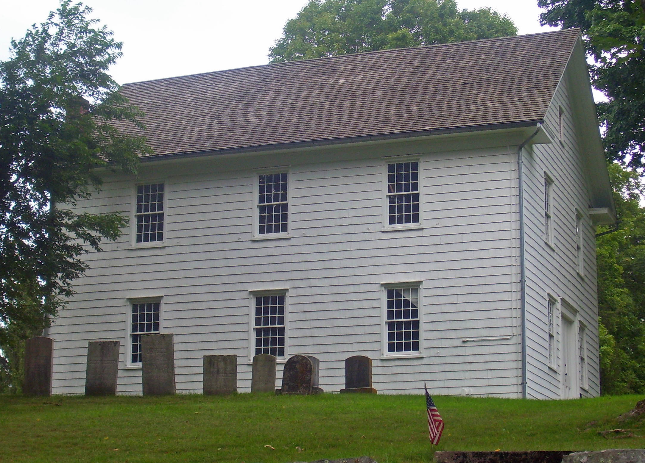 Mt. Zion Episcopal Church, Somers, NY, USA